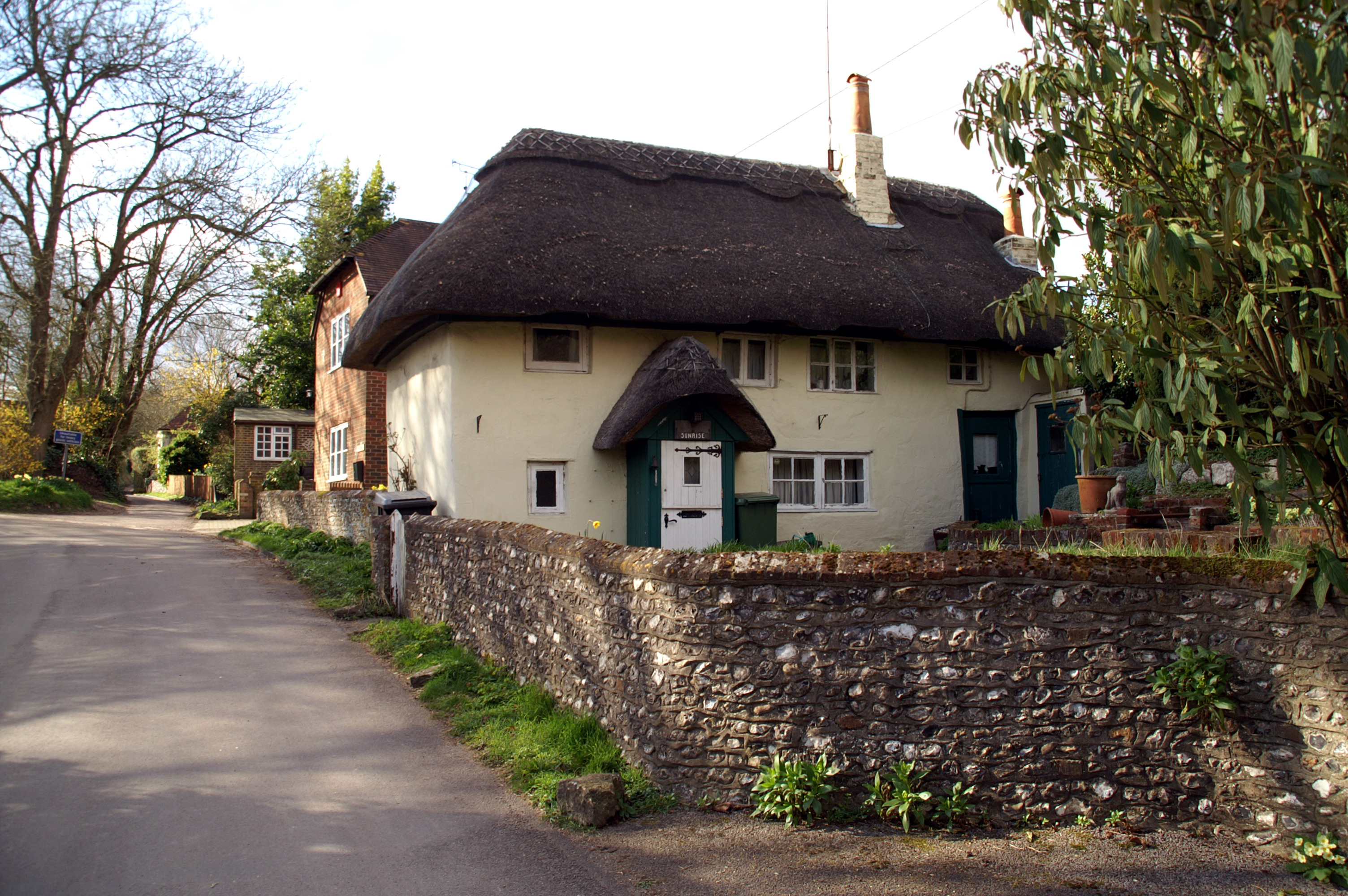 Cottages in Exton, Hampshire